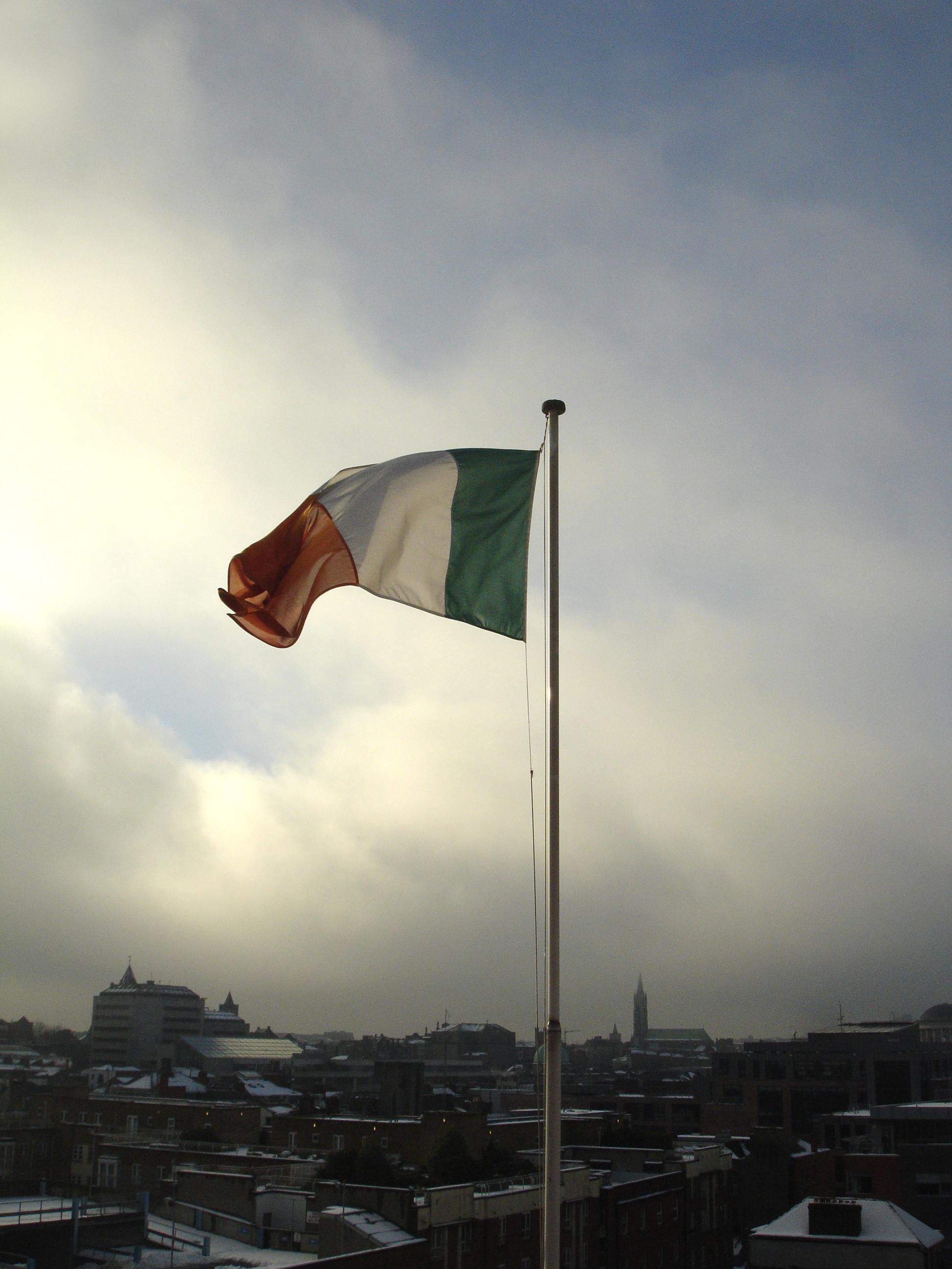 Irish flag over Dublin City. Taken on Sony Cybershot. Jervis Centre.